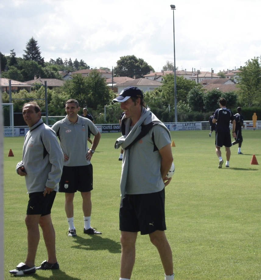 Staff Girondins Bordeaux 2007